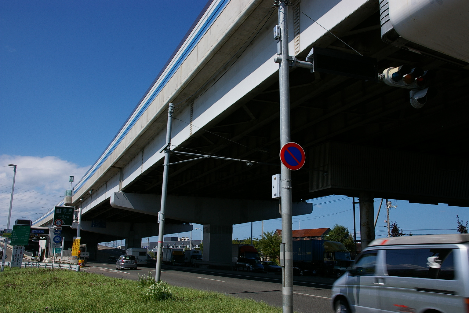 R274 Sapporo shindo.